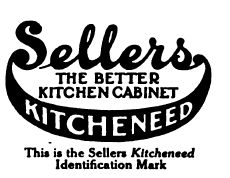 This is a crop of the Sellers logo from an advertisement for Sellers Kitcheneed kitchen cabinets from page 61 of the Saturday Evening Post April 8, 1916